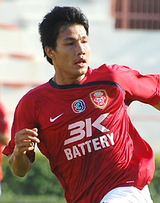 Arnon at Tero